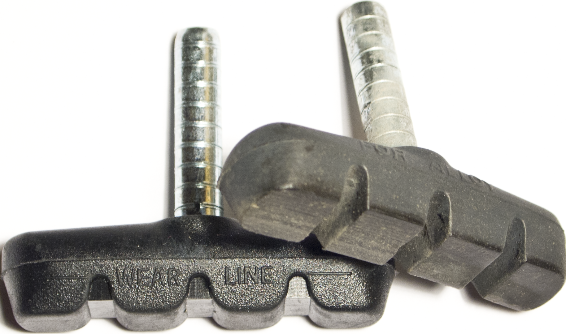 Cantilever brake pads for bicycle. The left one is new and the right one is used.